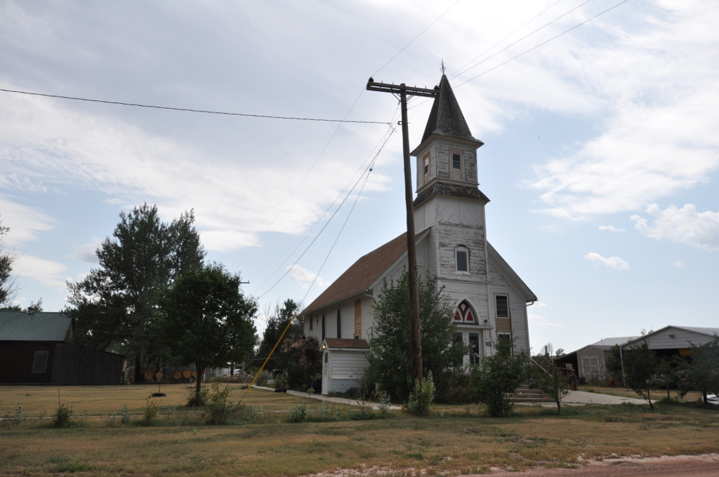 Buffalo Gap Historic Commercial District, Buffalo Gap, South Dakota. The town's only church.